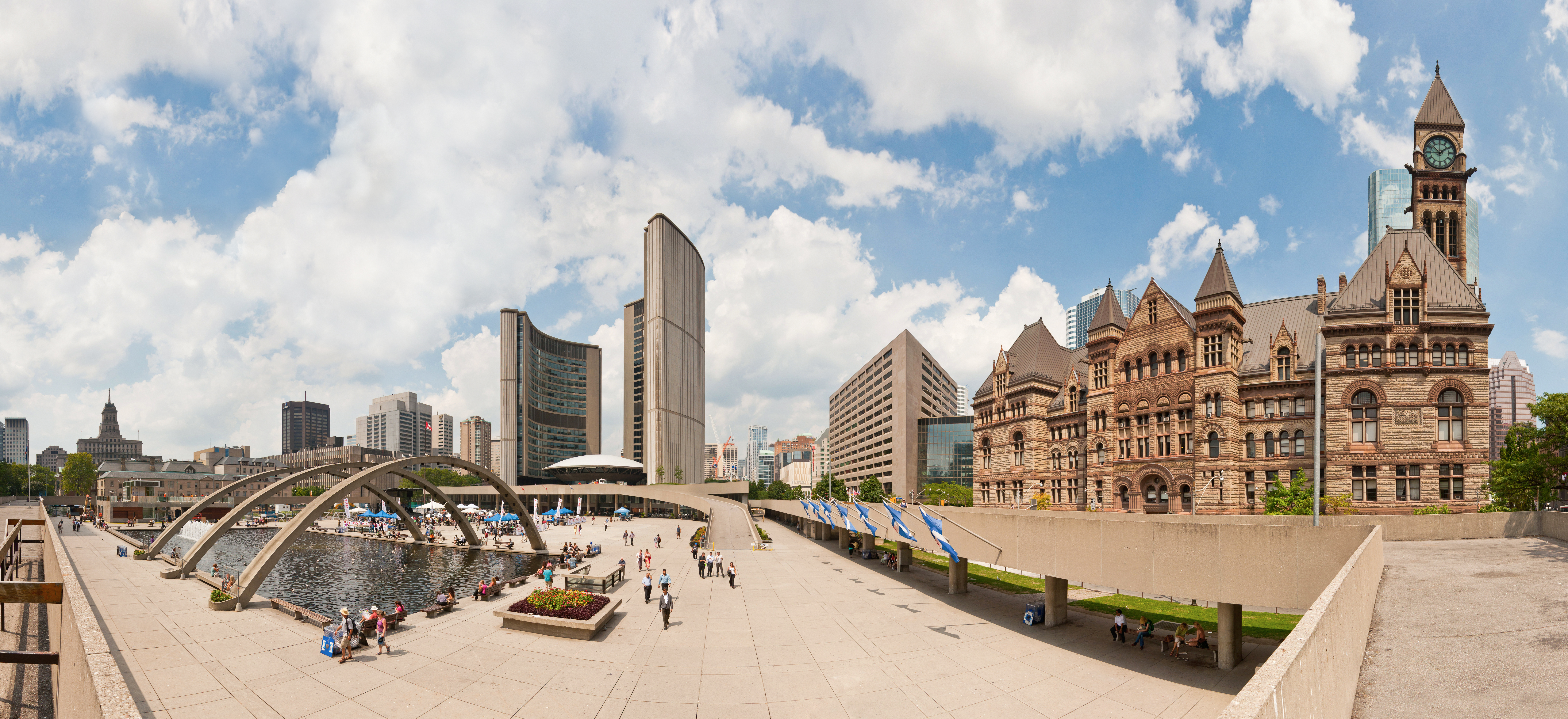 Panoramic view of Nathan Phillips Square in Toronto, Canada.